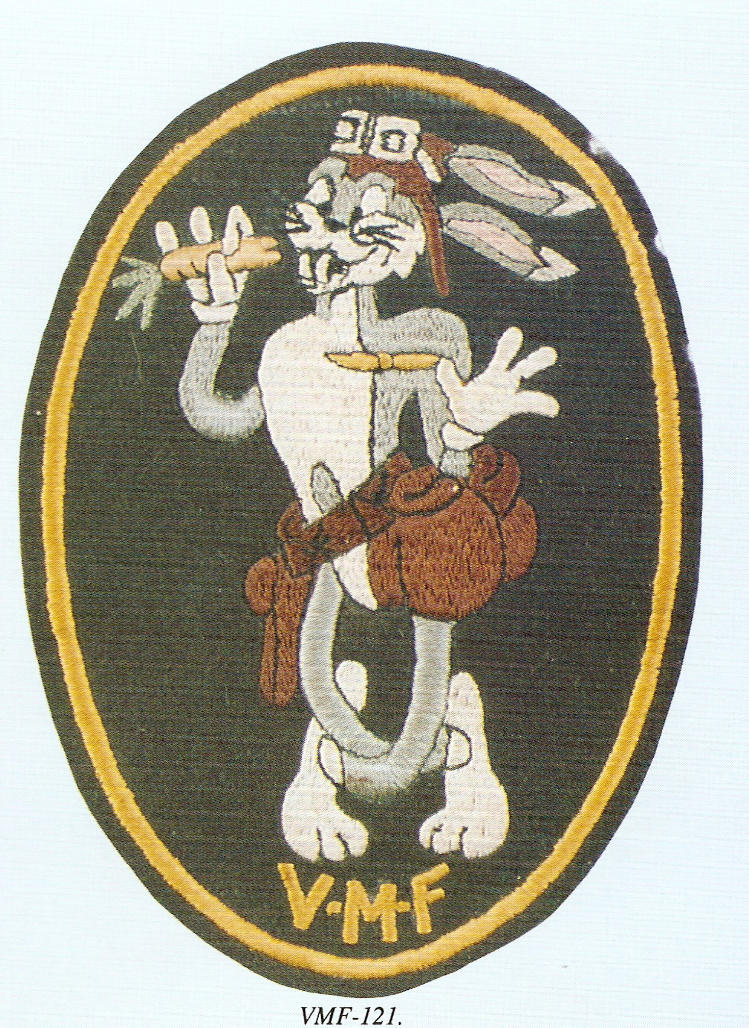 Scanned from *Millstein, Jeff. (1995). United States Marine Corps Aviation Squadron Unit Insignia, 1941 - 1946. Turner Publishing Company. ISBN 1-56311-211-6.